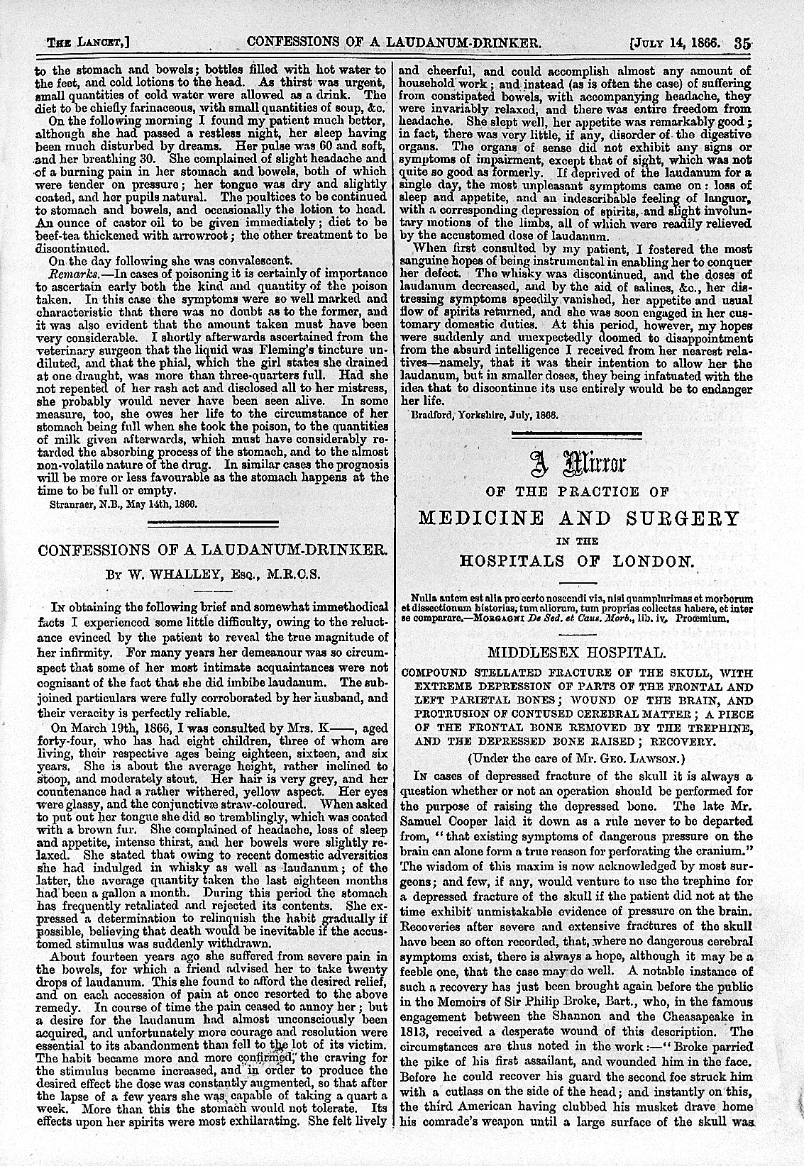 Confessions of a laudanum drinker General Collections